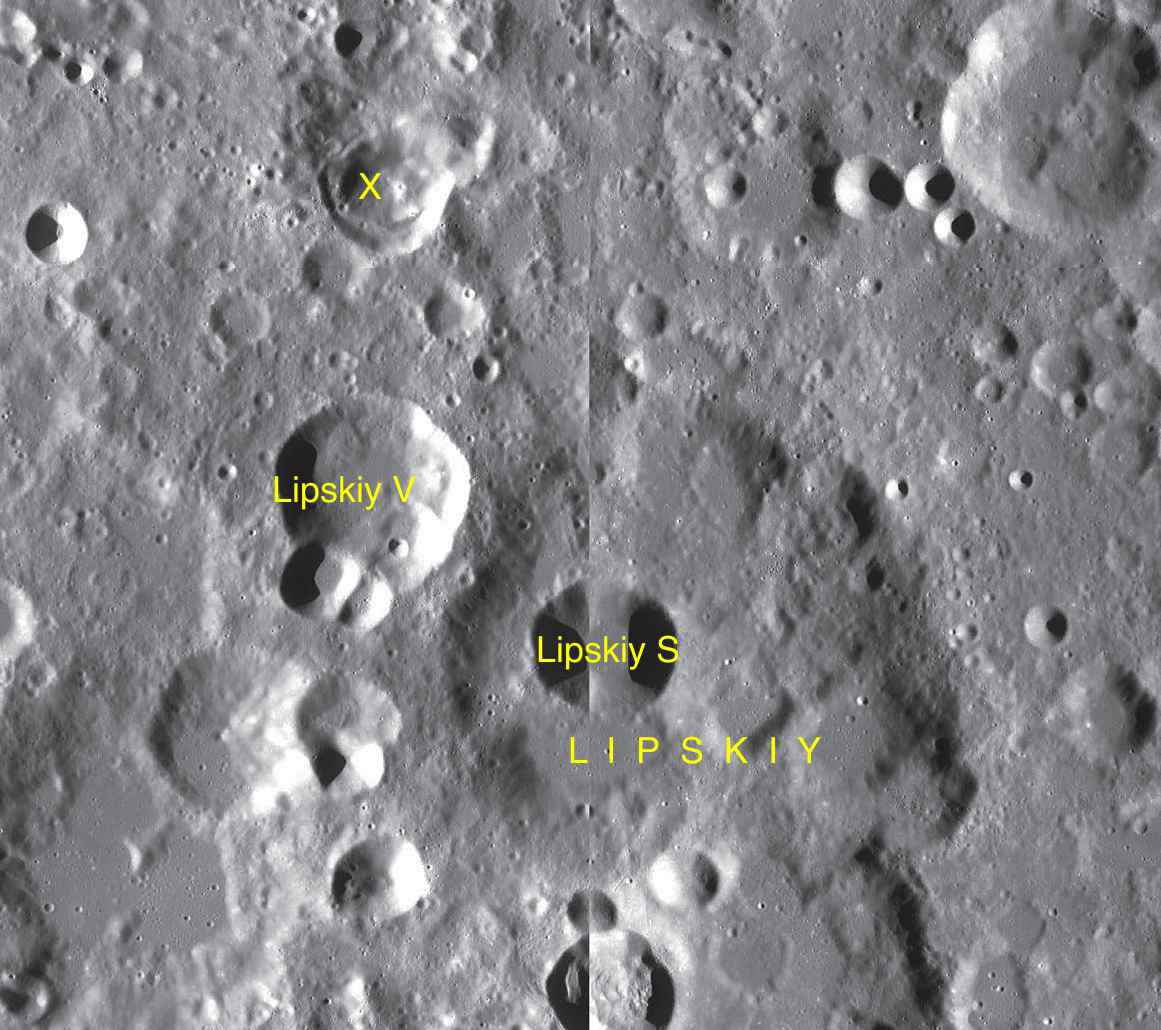 Parts of the charts LAC-68, LAC-86 used for the presentation